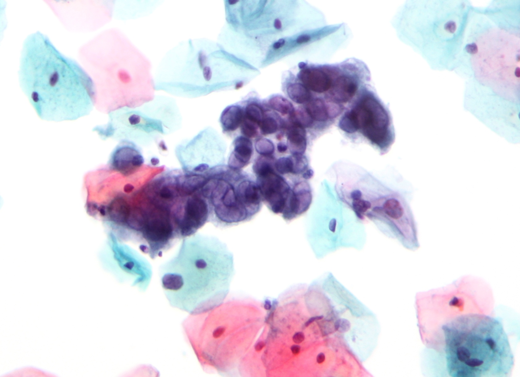 Micrograph showing the changes of herpes simplex virus (HSV). Pap test. Pap stain. The changes seen above may also been seen with the varicella zoster virus (VZV).